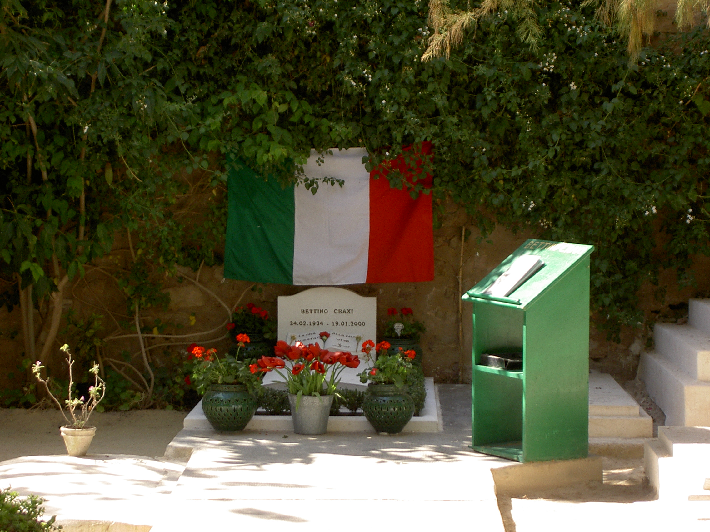 Tomb of Bettino Craxi in Hammamet (Tunisia), at the christian cemetery between the citadell of Hammamet, the sea and the muslim cemetery. where you can read the epitaph "La mia libertà equivale alla mia vita" ("My freedom is my life").